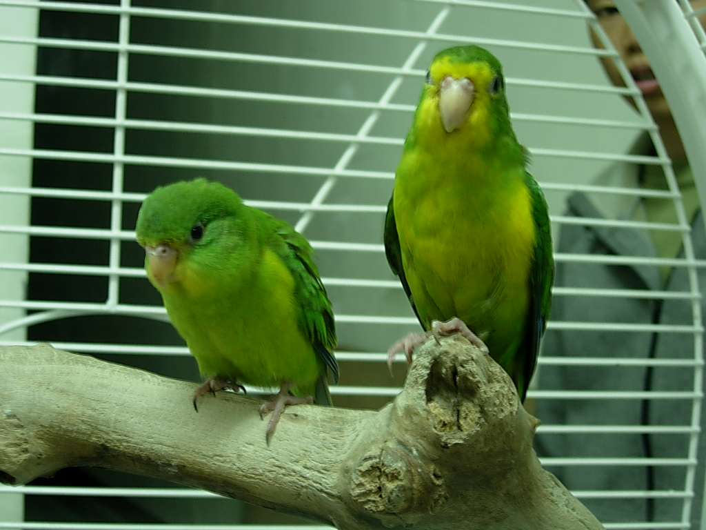 Mountain Parakeet; two in a cage.